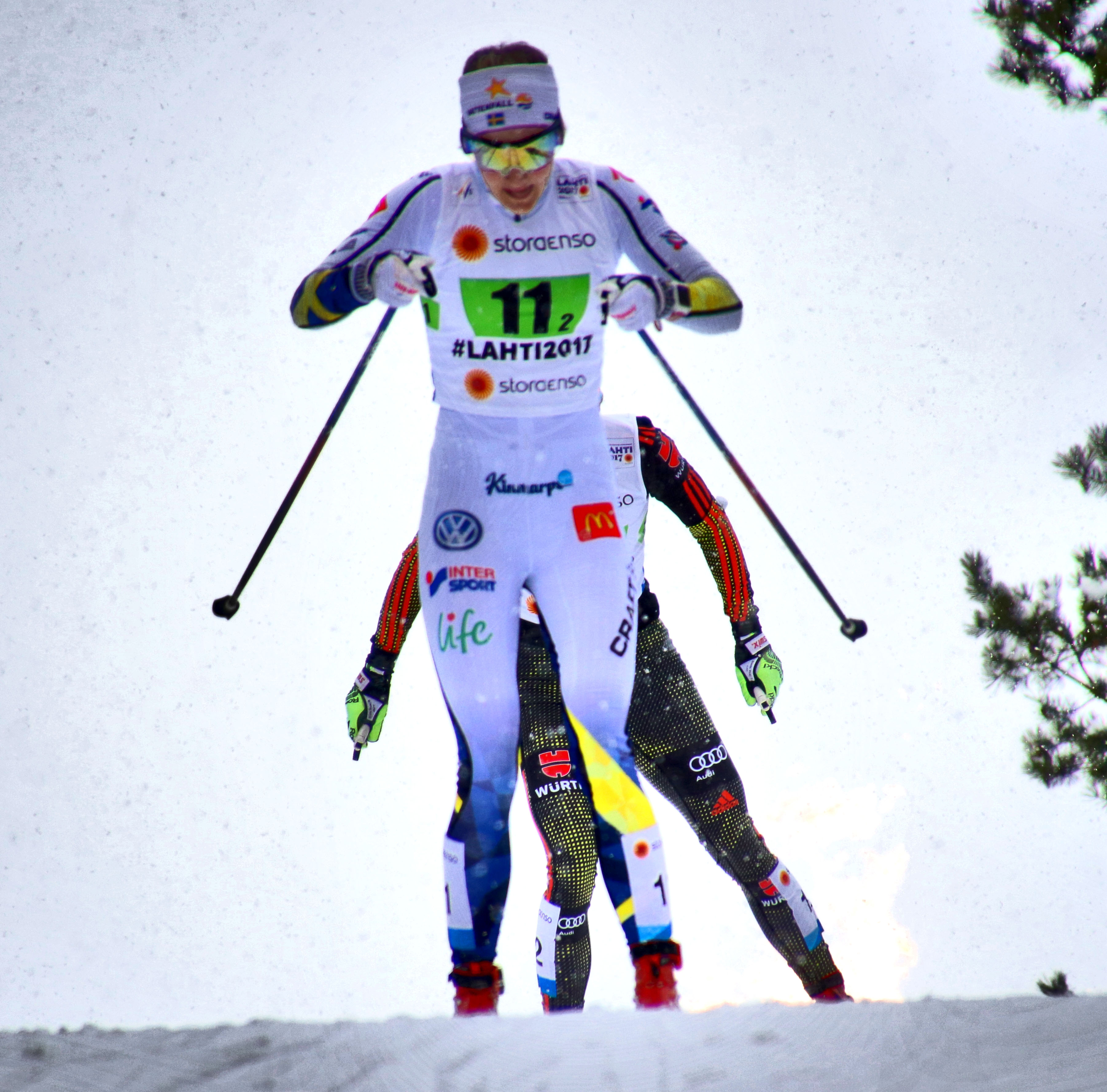 Lahti. At the cross-country skiing world championships.